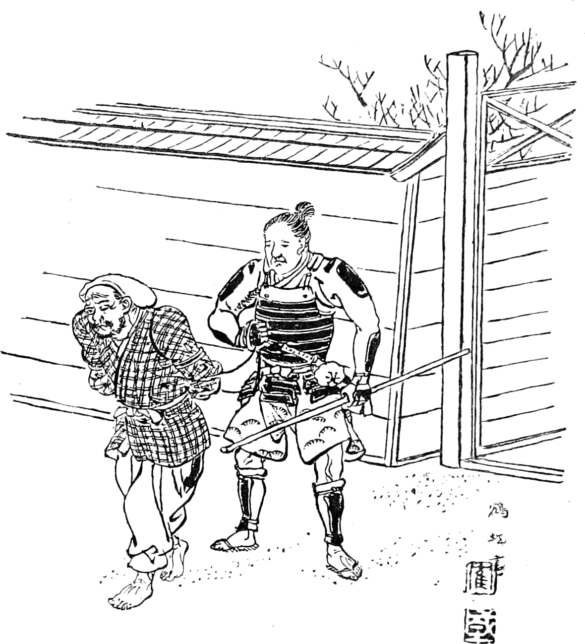 Image from The Japanese Fairy Book